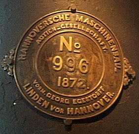 Factory plate of locomotive no. 996 from HANOMAG, Hanover, Germany. On display in Deutsches Technikmuseum, Berlin